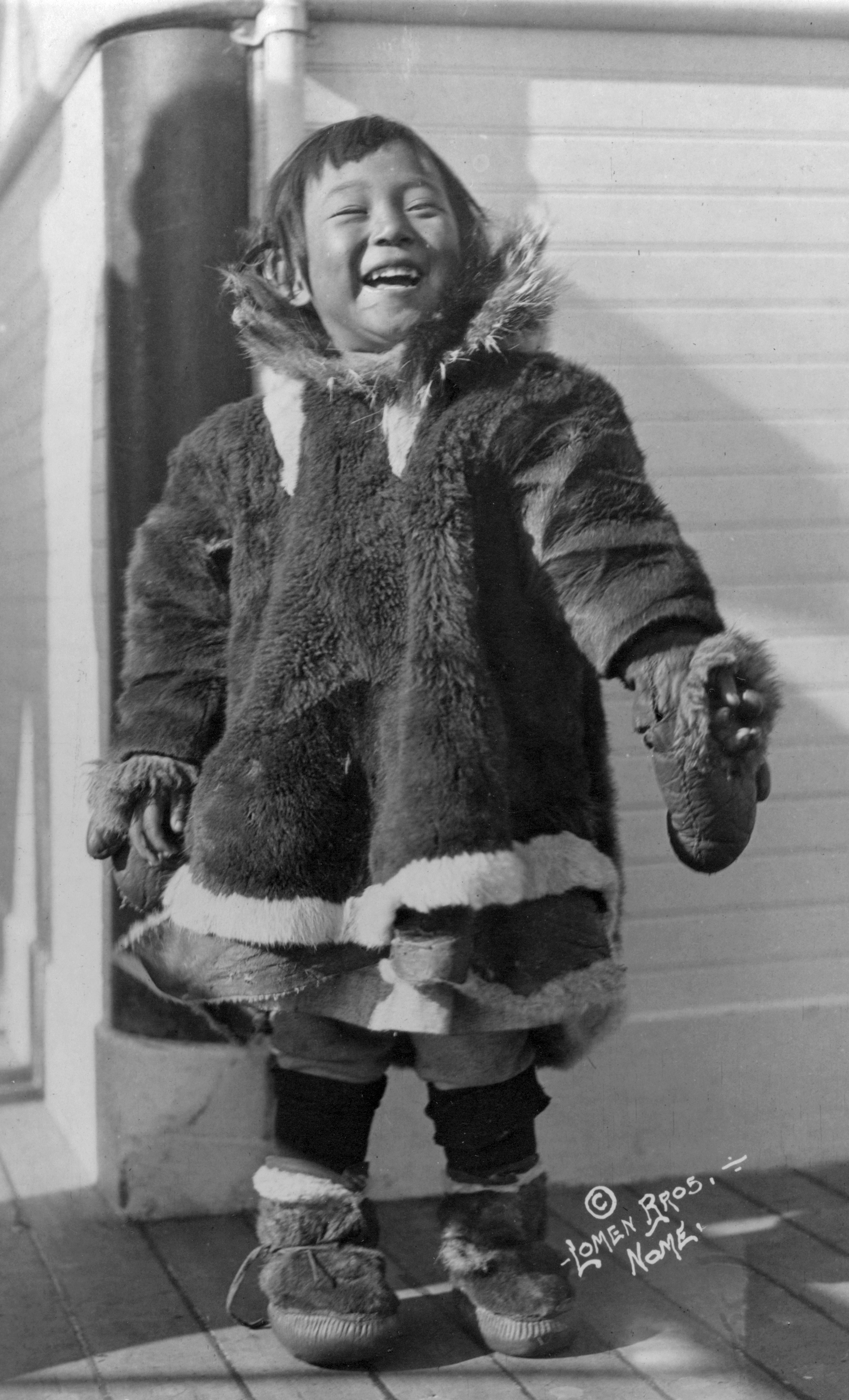 Mukpie, Point Barrow Eskimo girl, youngest survivor of the S.S. Karluk MEDIUM: 1 photographic print. Forms part of: Frank and Frances Carpenter collection (Library of Congress). This photograph was also published opposite page 142 in: Bartlett & Hale: The Last Voyage of the Karluk, McLelland, Goodchild & Stewart, Toronto 1916 link here